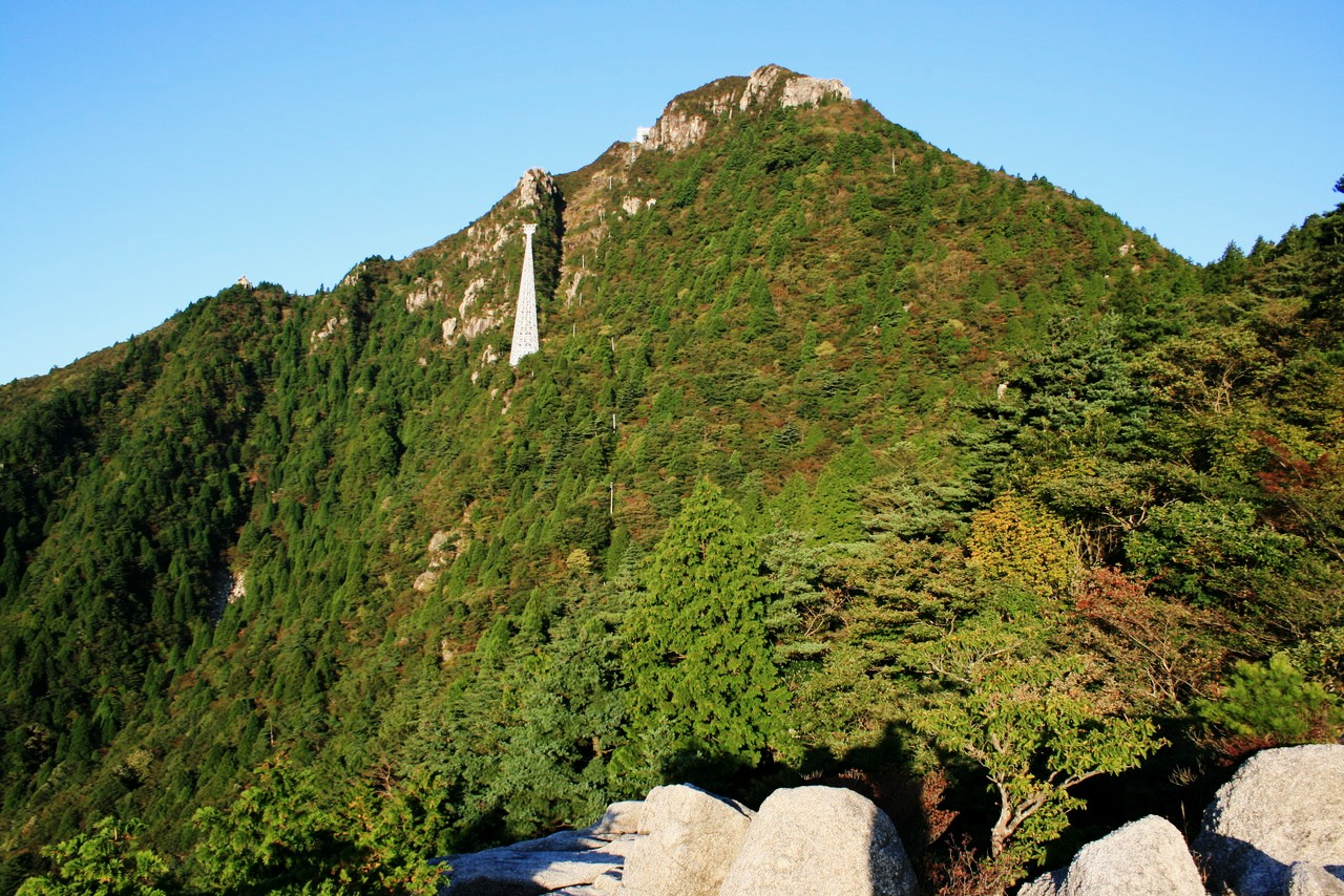 Gozaishodake_from_Nakamichi_2009-10-11